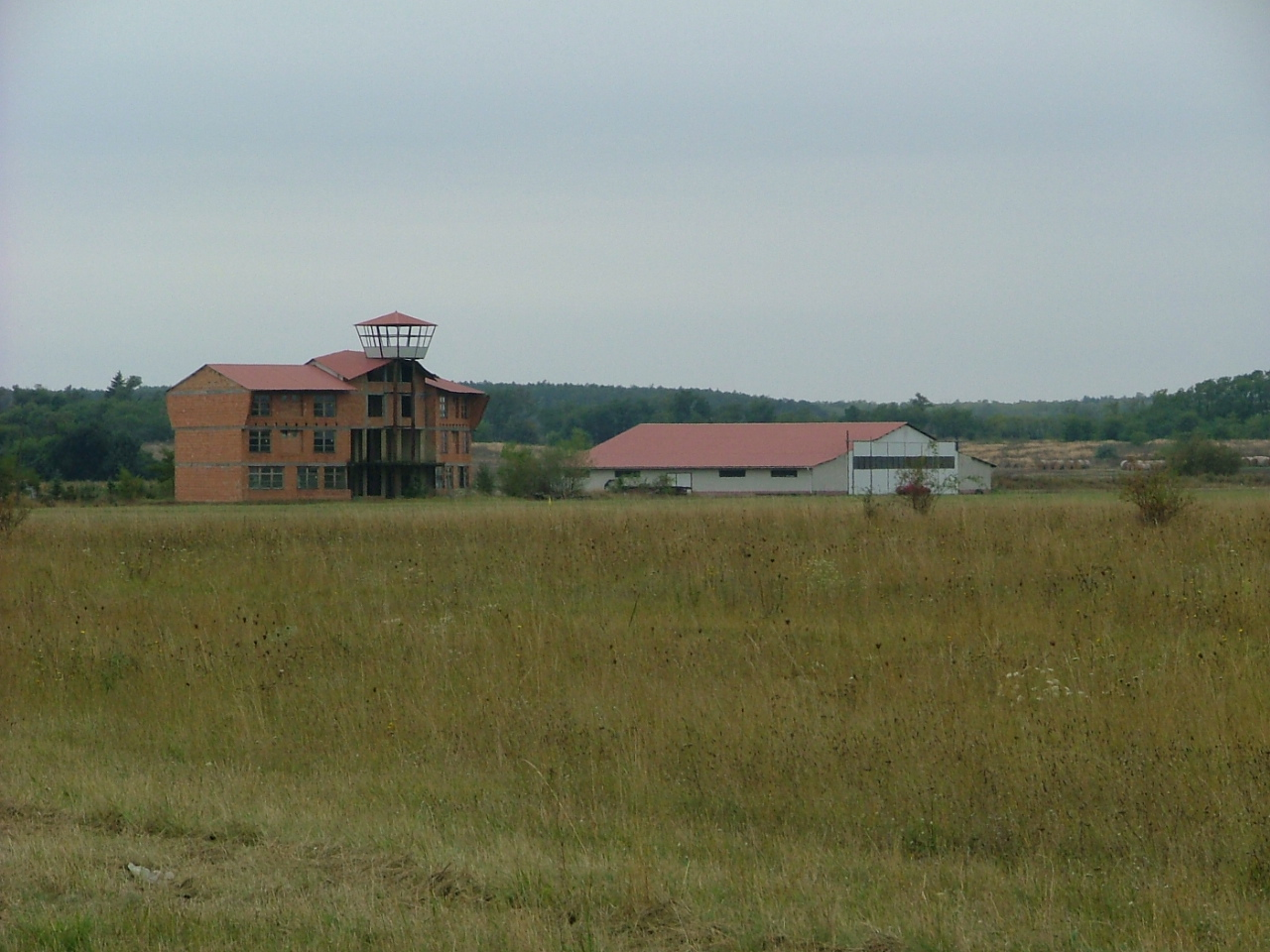 Airfield in Pusztacsalád